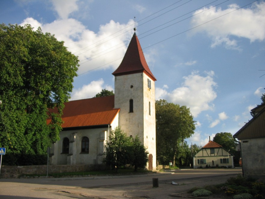 Durbe Evangelical Lutheran Church